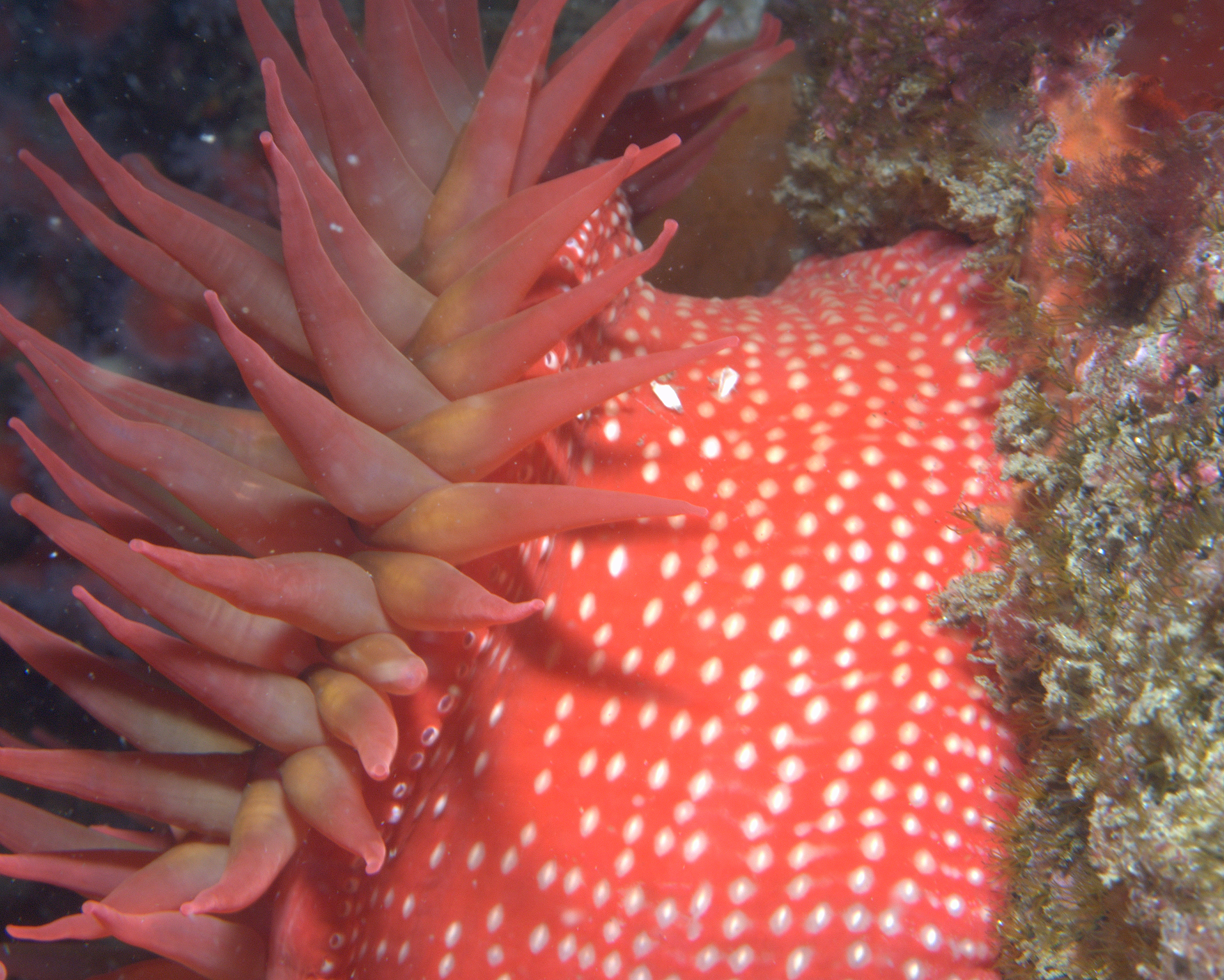 White-Spotted Rose Anemone, Urticina lofotensis, in California